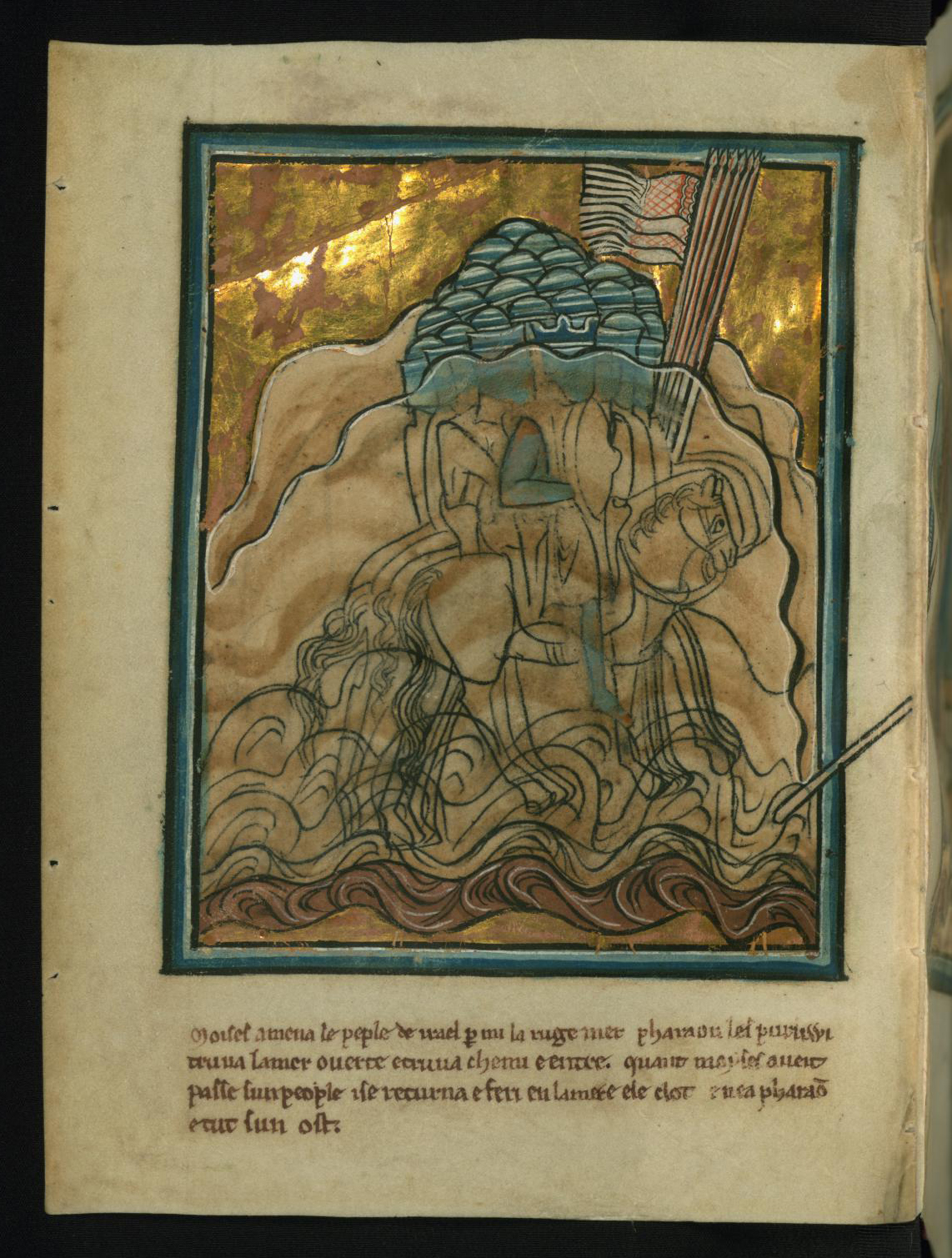 This page from Walters manuscripts W.106 depicts a scene from Exodus, in which the Israelites escape their bondage in Egypt. After God sent many plagues, the Pharaoh at last agreed to let the Israelites leave, but then changed his mind and pursued them. The Israelites crossed over the Red Sea, after God had made all the sea dry land. In this image, Moses used Gods power to allow the waters to return, drowning Pharaoh's army.